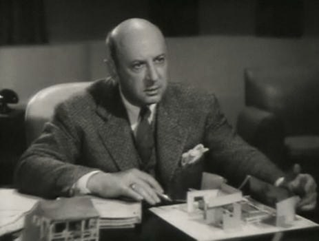 Marc Connelly in The Green Pastures - trailer (cropped screenshot)